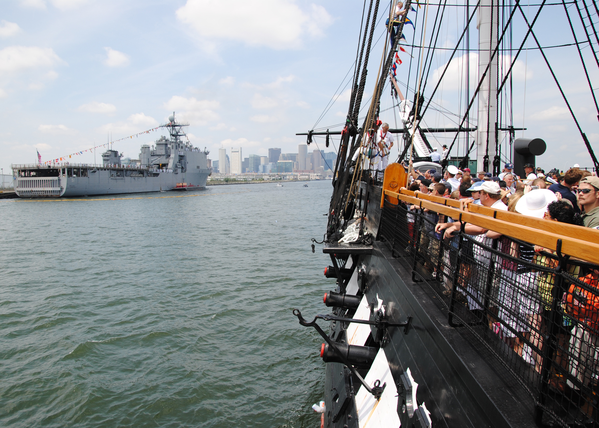 BOSTON (July 4, 2011) USS Constitution passes the amphibious dock landing ship USS Oak Hill (LSD 51) during the ship's July 4th underway as part of Boston Harborfest. The six-day Fourth of July festival showcases Boston's Colonial and maritime heritage to honor and remember the past, celebrate the present, and educate the future with reenactments, concerts and historical tours. (U.S. Navy photo by Mass Communication Specialist 2nd Class Kathryn E. Macdonald/Released)